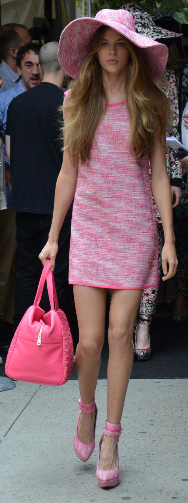 DKNY Spring 2012 (Cropped).